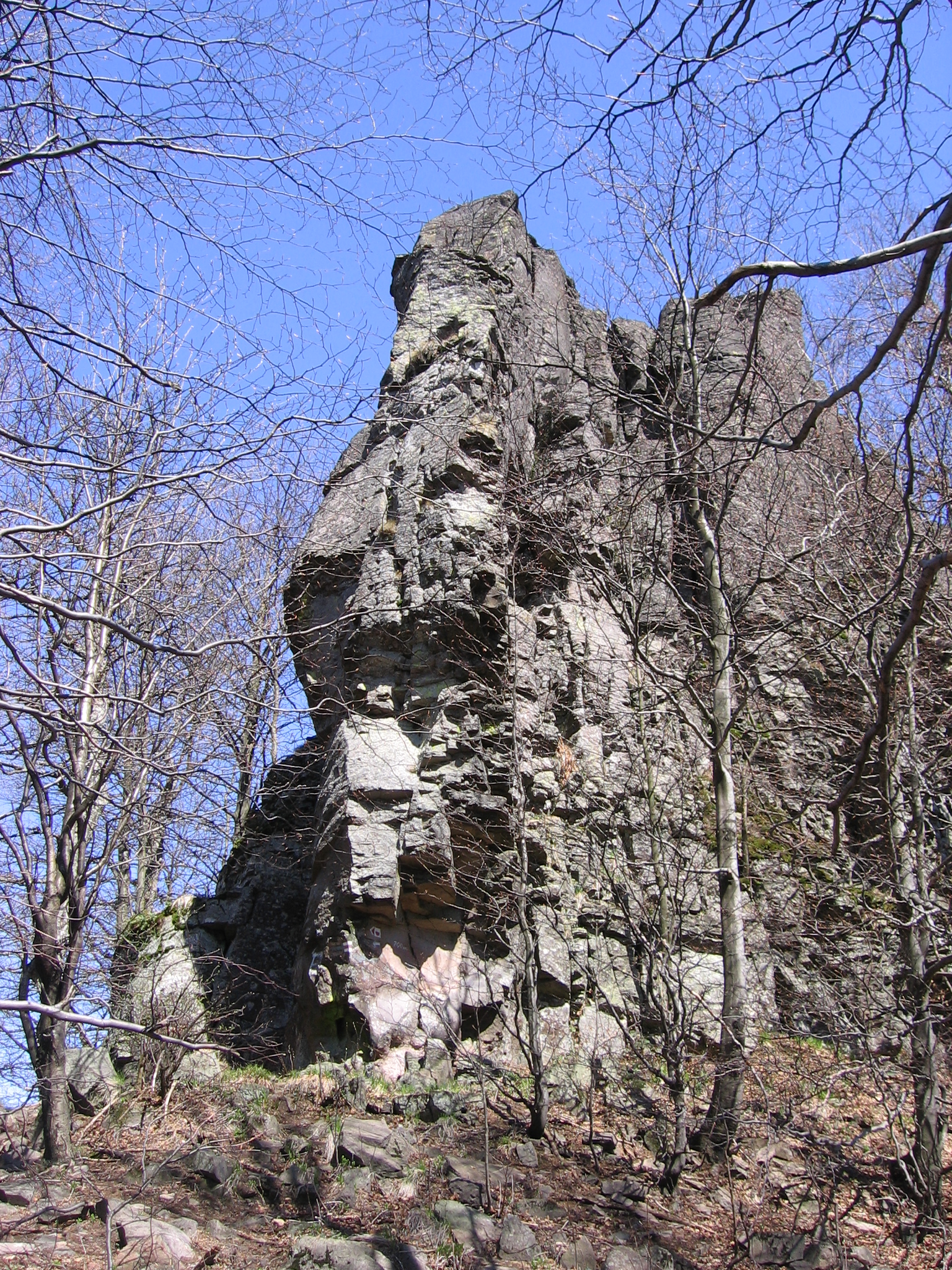 Slovakia, Vihorlat mountain, Sninsky kamen peak - andesite column on the top.